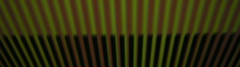 Near-field interference pattern created by the talbot-effect using white light (halogen lamp) and a self-made phase grating. G0 absorption grating right before lamp has same period as phase grating. Phase grating is build by cutting slits into a plastic foils. The foil is put between parallel glass plates into lineseed oil (nearly same refraction index).